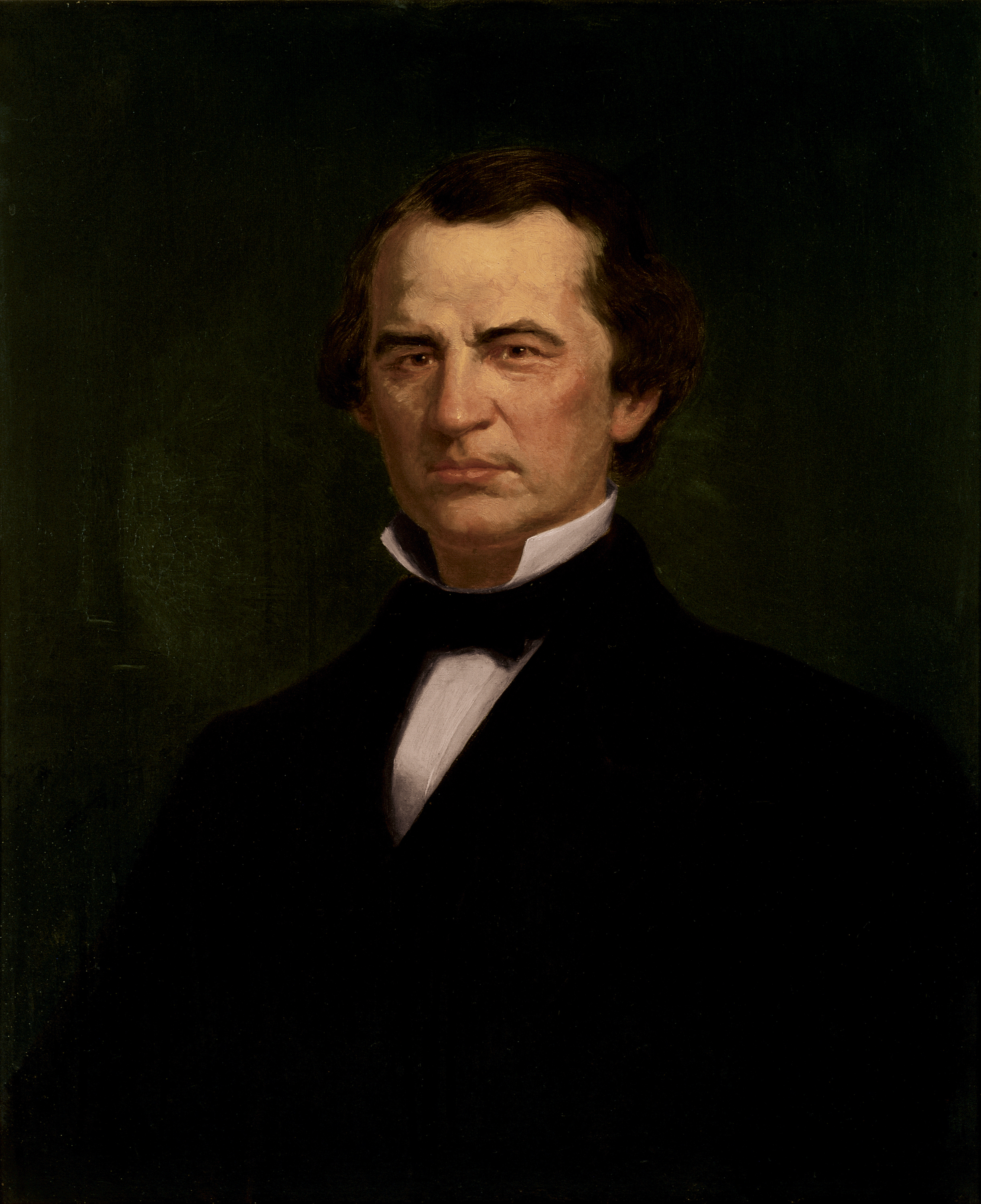 Official Presidential portrait of Andrew Johnson